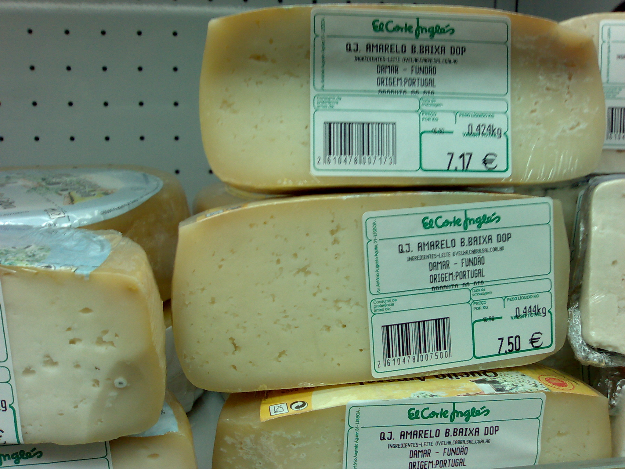 Queijo amarelo da Beira Baixa, a portuguese cheese.